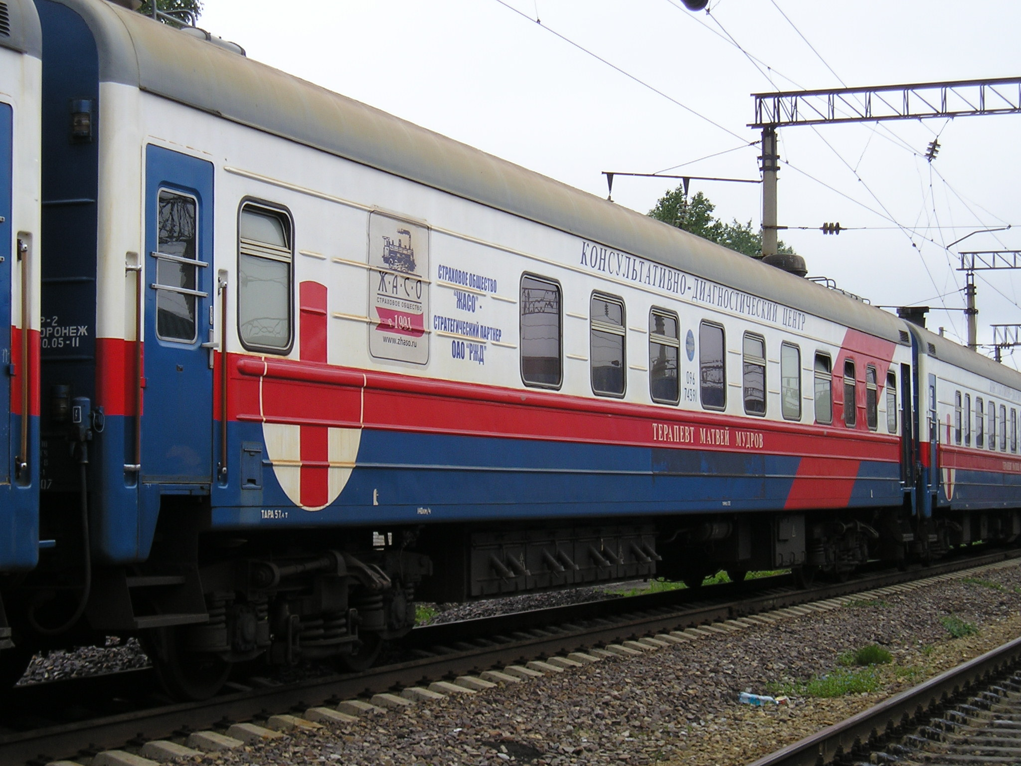 Car of "Terapevt Mudrov" (therapeutis Mudrov) hospital train of JSC Russian Railways.